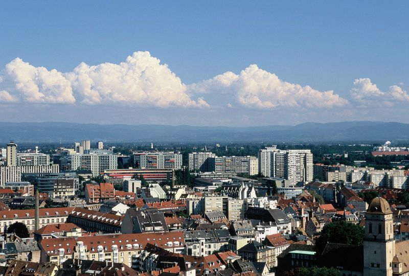 Cathedral View